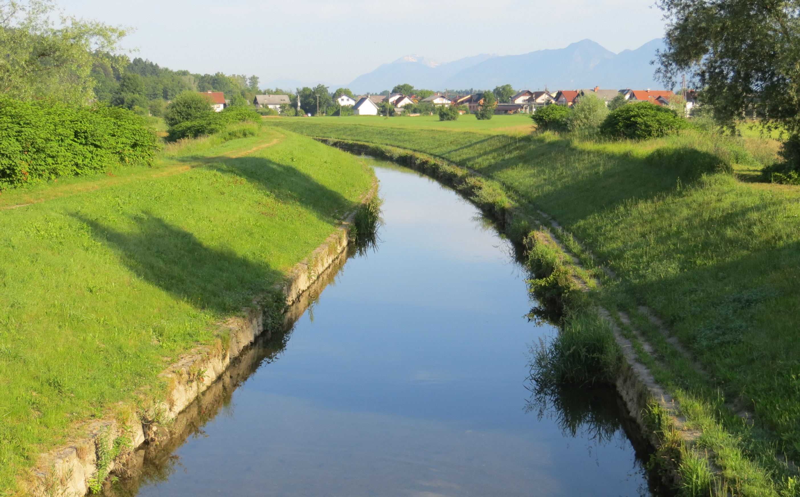 Pšata River at Topole, Municipality of Mengeš, Slovenia